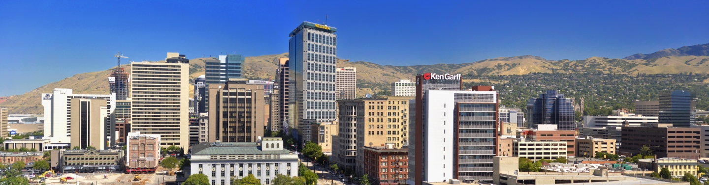 Photograph of downtown salt lake city